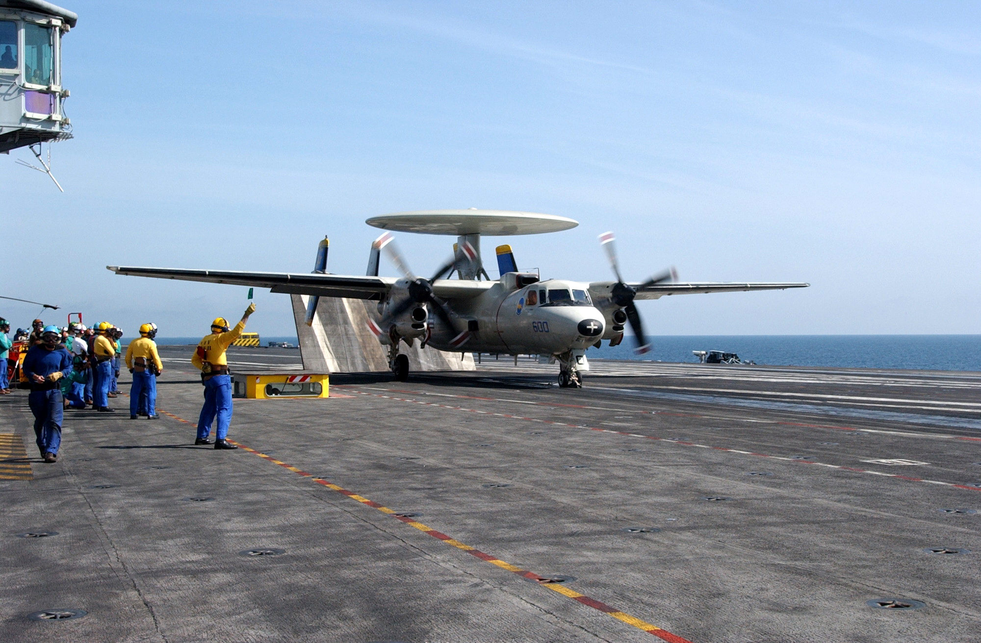 At sea aboard Charles De Gaulle (R 91) Feb. 28, 2002 - A U.S. Navy E-2C "Hawkeye" from the "Golden Hawks" of Carrier Airborne Early Warning Squadron One One Two (VAW-112) prepares to take off from the flight deck of the French aircraft carrier Charles de Gaulle. The “Hawkeye” embarked with Carrier Air Wing Nine (CVW-9) aboard USS John C. Stennis (CVN 74) made an arrested landing and catapult launch from the French carrier to demonstrate multinational capabilities between the two navies. John C. Stennis and coalition forces are conducting combat missions in support of Operation Enduring Freedom. U.S. Navy photo by Photographer's Mate 2nd Class Kimara Scott. (RELEASED)